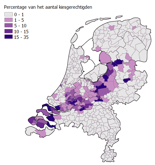 Percentage of votes for the SGP (Reformed Political Party) per municipality